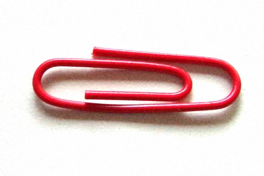 One red paperclip, the paperclip that Kyle Macdonnel traded for a house.one red paperclip